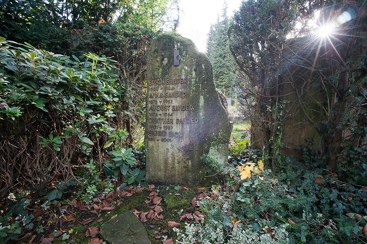 Grave of the German Photographer August Sander - Melaten Cemetery - Cologne, Germany